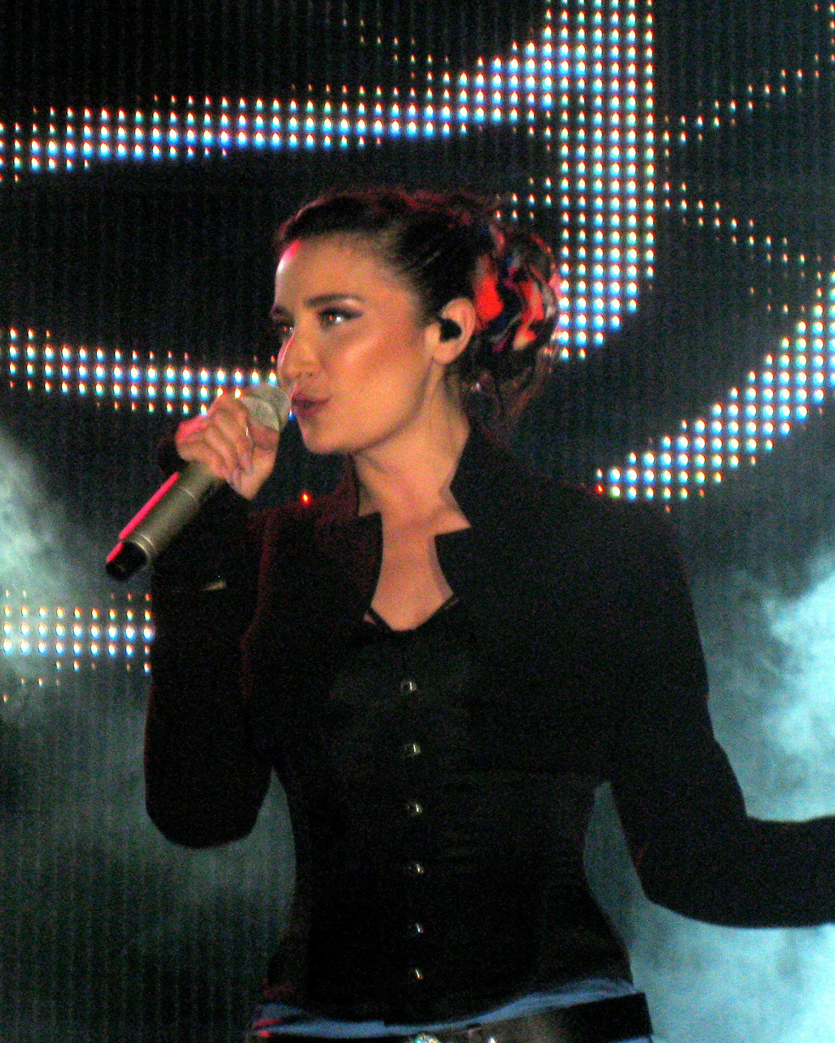 Sıla, Turkish singer, songwriter and composer.